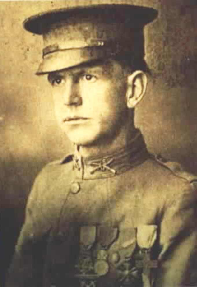 WWI Medal of Honor recipient Willie Sandlin. He wears the Medal of Honor, the French Médaille militaire, the French Croix de guerre with bronze palm and the Italian Croce al Merito di Guerra.